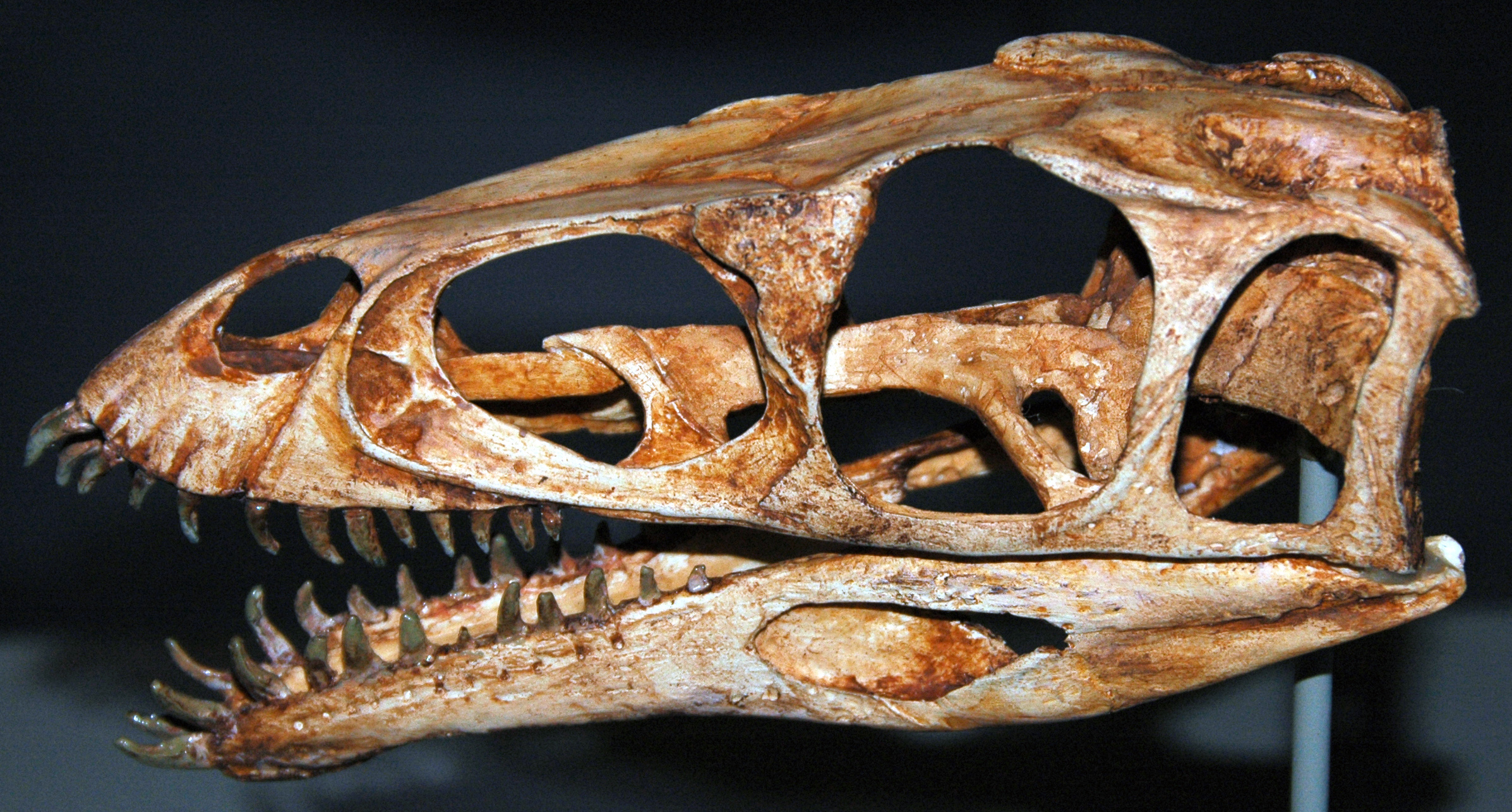 Masiakasaurus knopfleri Sampson et al., 2001 theropod dinosaur from the Cretaceous of Madagascar (public display at Chicago's Field Museum of Natural History - reconstructed skull based on UA 8680 (University of Antananarivo, Antananarivo, Madagascar) and FMNH PR 2183 & other FMNH specimens (Field Museum of Natural History, Chicago, Illinois, USA)). This unusual, small theropod dinosaur had anteriorly-projecting teeth at the front of its snout. This would have given its bite a larger "footprint", which allowed for easier capture of prey, perhaps slippery prey such as fish. Classification: Animalia, Chordata, Vertebrata, Dinosauria, Theropoda, Noasauridae Stratigraphy: Anembalemba Member, Maevarano Formation, Maastrichtian Stage, upper Upper Cretaceous Locality: near Berivotra, Mahajanga Basin, northern Madagascar Reference: Sampson, S.D., M.T. Carrano & C.A. Forster. 2001. A bizarre predatory dinosaur from the Late Cretaceous of Madagascar. Nature 409: 504-506. Theropod were small to large, bipedal dinosaurs. Almost all known members of the group were carnivorous (predators and/or scavengers). They represent the ancestral group to the birds, and some theropods are known to have had feathers. Some of the most well known dinosaurs to the general public are theropods, such as Tyrannosaurus, Allosaurus, and Spinosaurus.